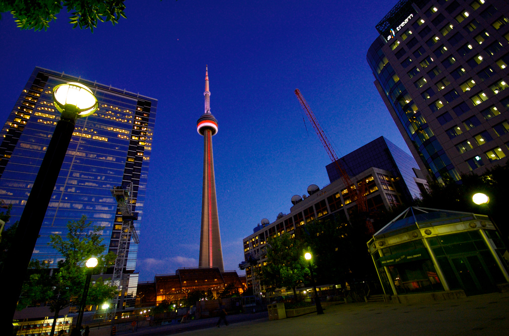 CN Tower at night, Toronto, Canada.